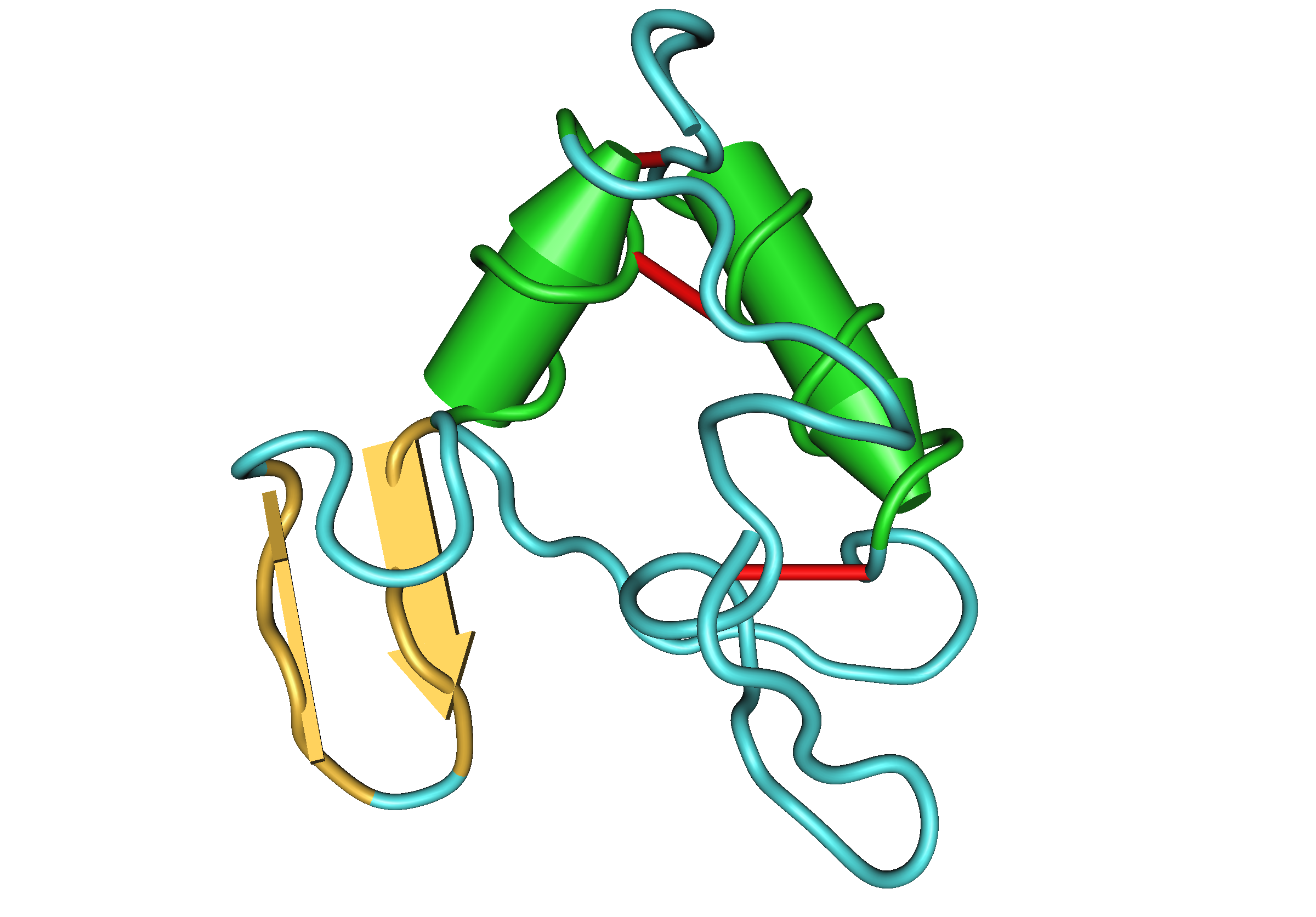 3GF1_Insulin-Like_Growth_Factor_Nmr